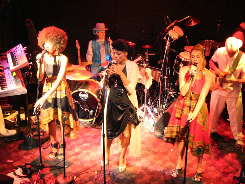 This is a photo of Zap Mama that I took myself at the 8x10 club in Baltimore, Maryland on November 1, 2007 that I am licensing under Create Commons Attribution-Share Alike 3.0. Users are free to share and remix this photo for commercial and non-commercial purposes. However, all use of this photo must attributed and contain the attribution that it was taken by Hugh Pickens.